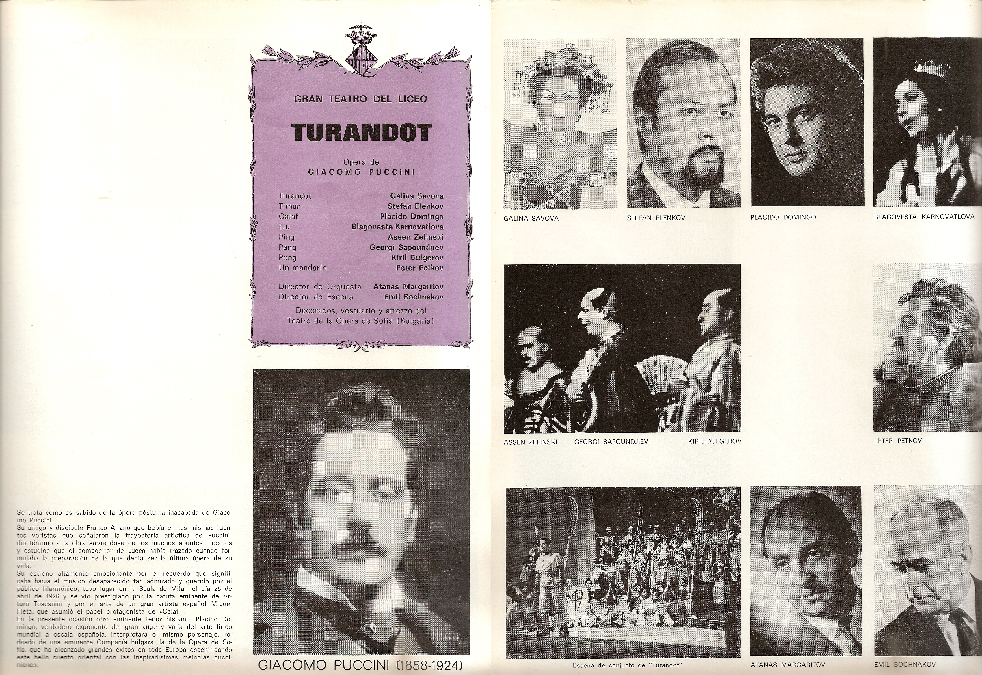 Emil Boshnakov - Bulgarian Opera Director - Gran Teatro del Liceo - Turandot by Giacomo Puccini (1971)